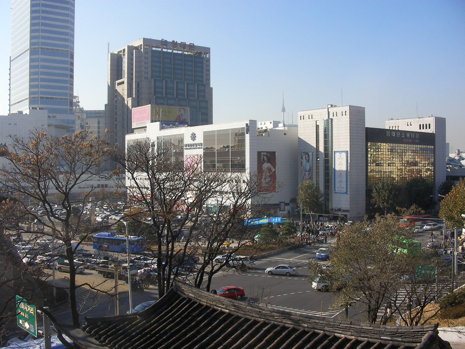 Dongdaemun Market, located in Jung-gu, Seoul, the biggest market in South Korea.